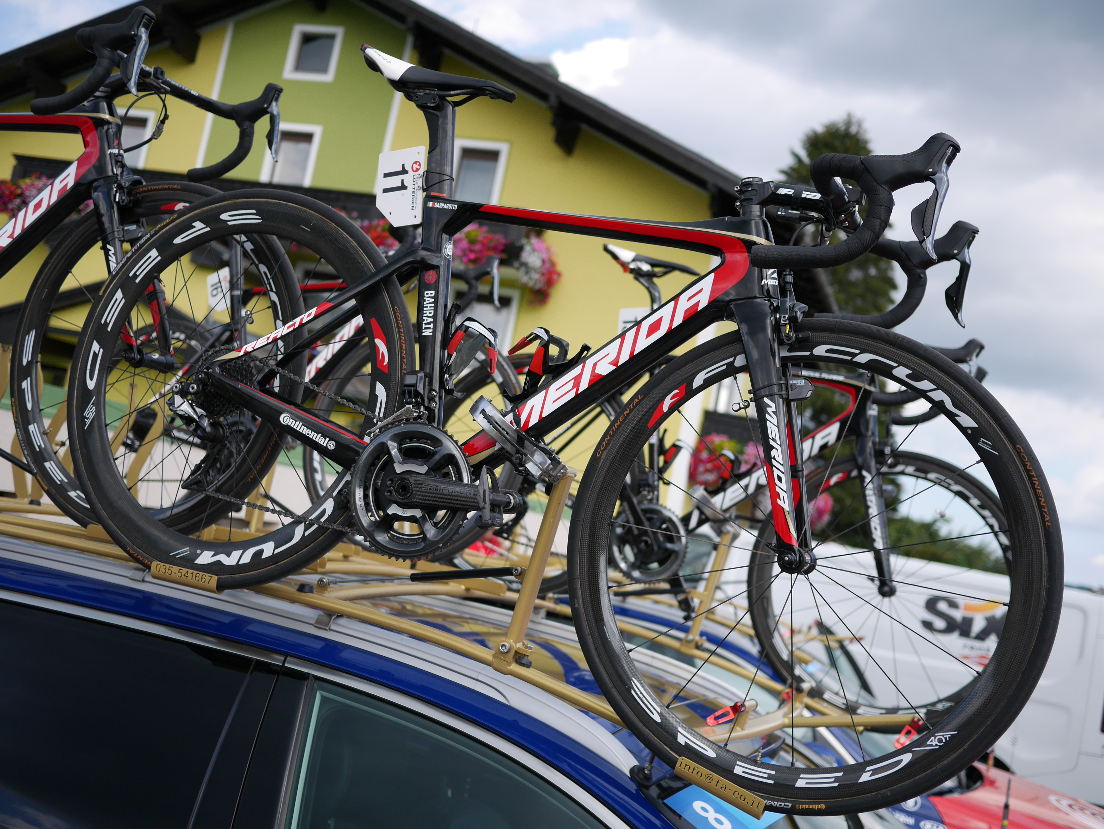 Merida Reacto in 2018, Tour of Austria 2018. Driven by Enrico Gasparotto